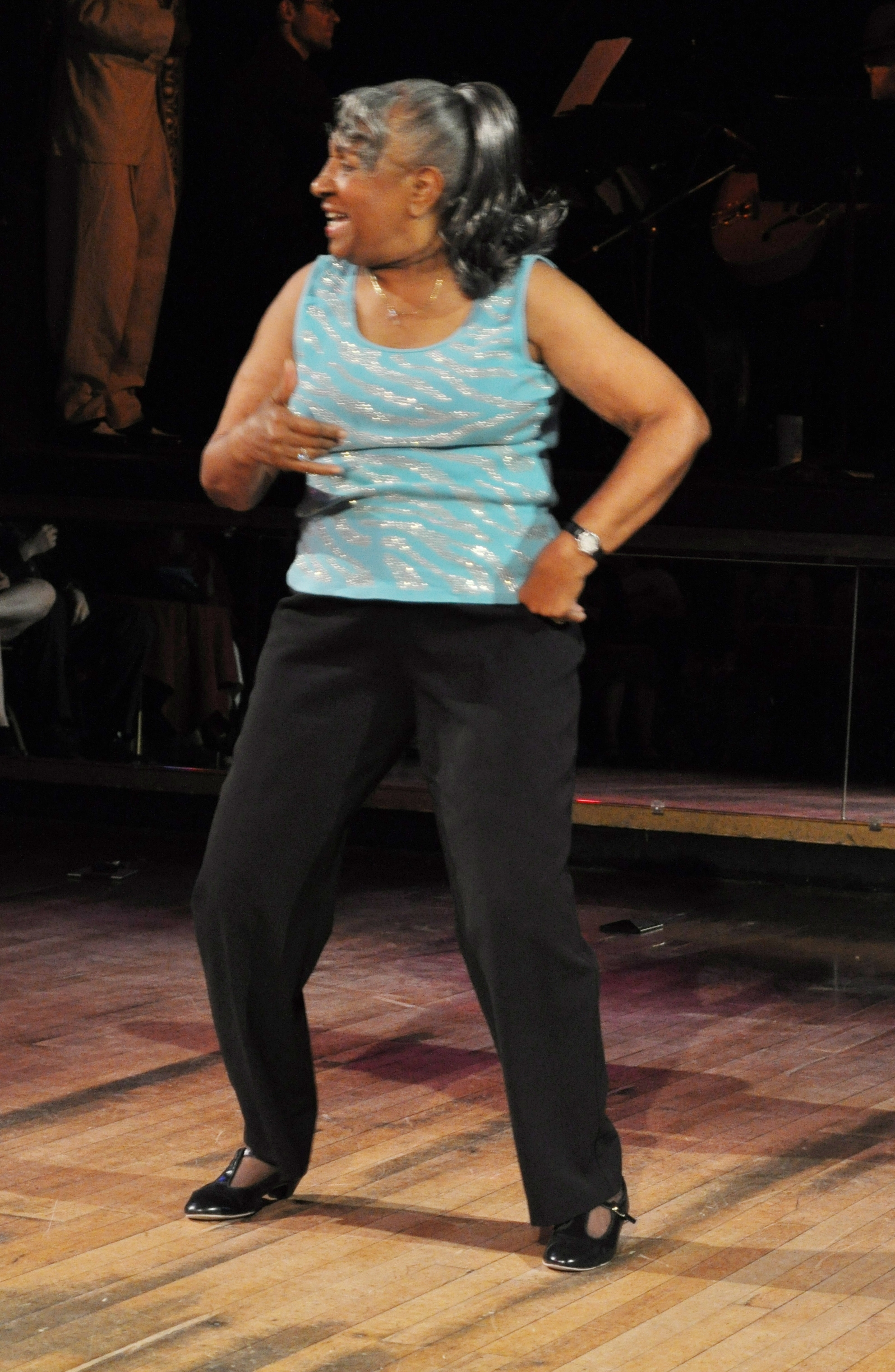 Sugar Sullivan performing at Masters of Lindy Hop and Tap, Century Ballroom, Oddfellows Temple, Pine Street, Capitol Hill, Seattle, Washington, USA. For more about Sullivan, see Sugar Sullivan on their site. Touch-up: there is a slight touch-up on the hand, which had a lot of motion blur.